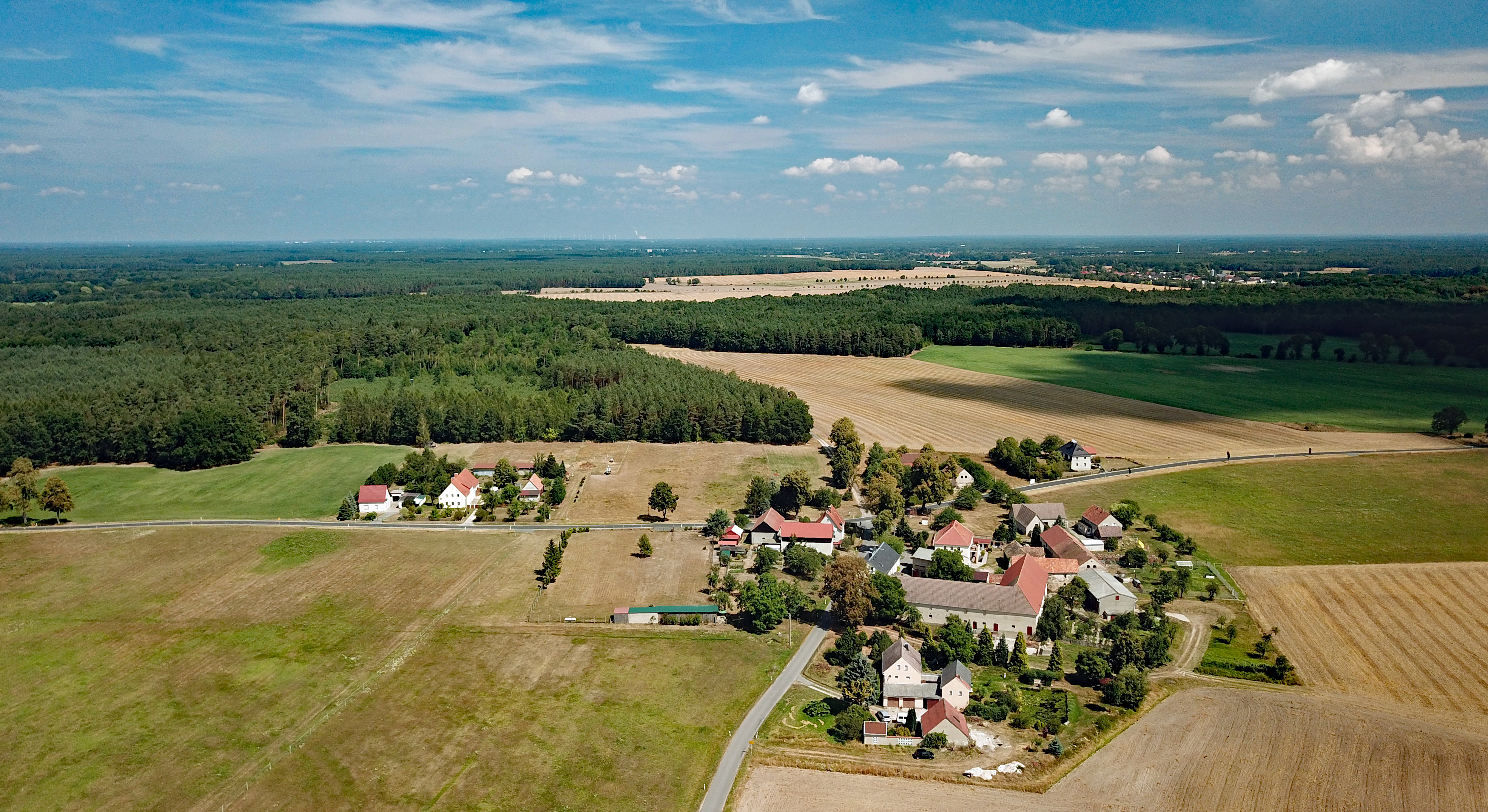 Lomske (Neschwitz, Saxony, Germany) Hornjoserbsce: Powětrowy wobraz Łomska pola Njeswačidła